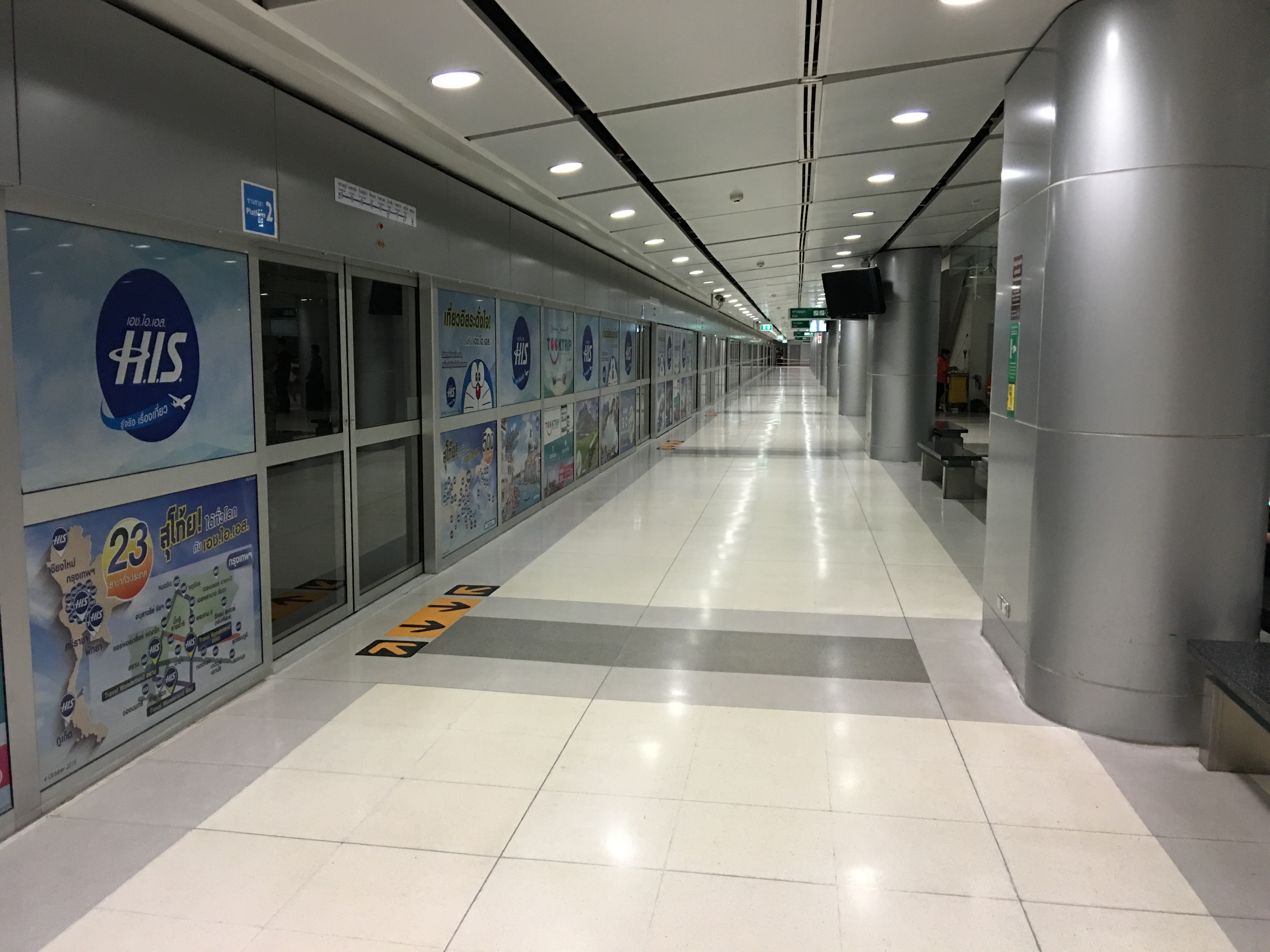 Suvarnabhumi ARL Station